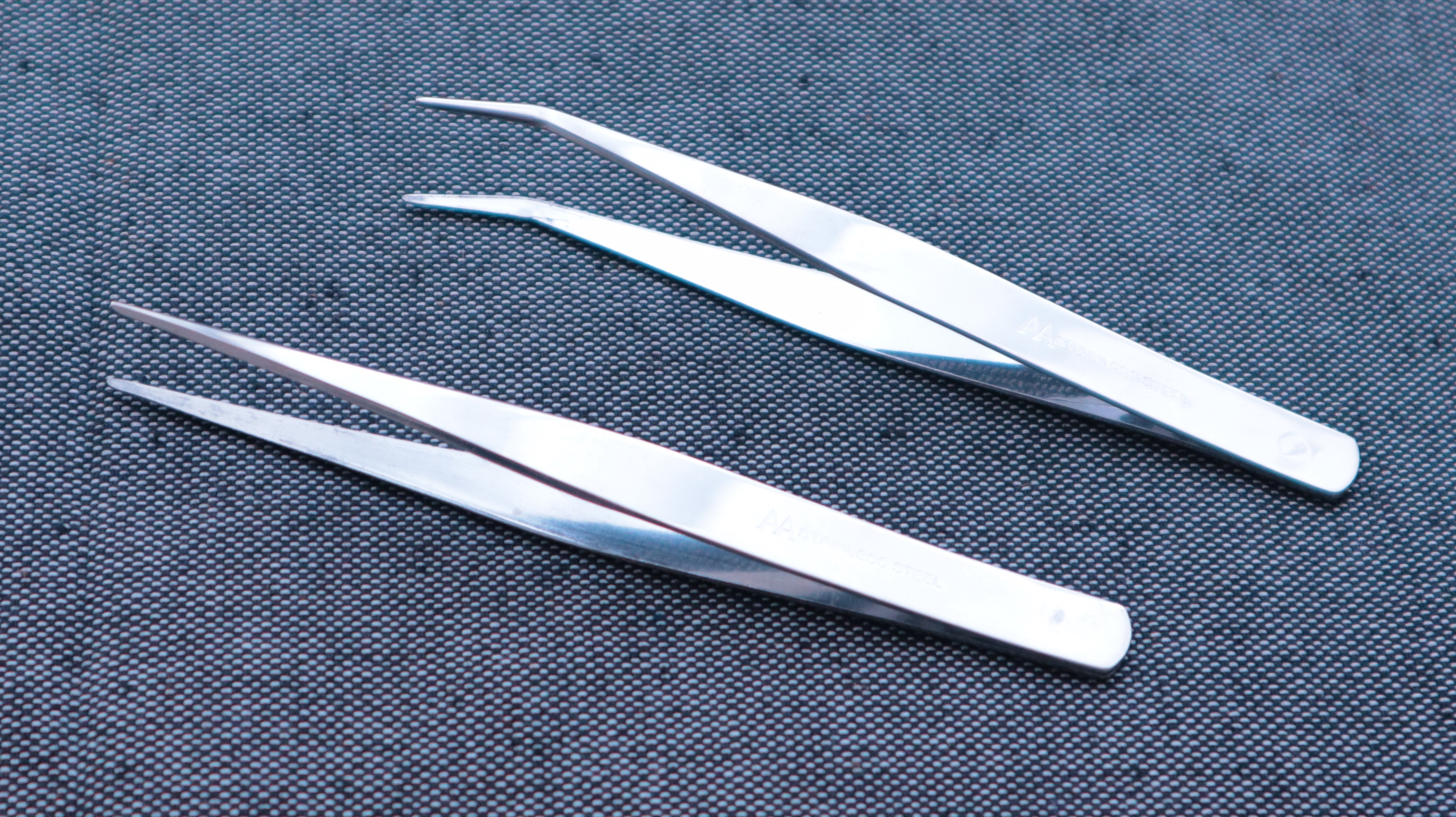 Stainless steel tweezers. The material is martensitic stainless steel JIS SUS410.